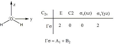 Made in ChemDraw, shows the reducible representation of the bonding of water